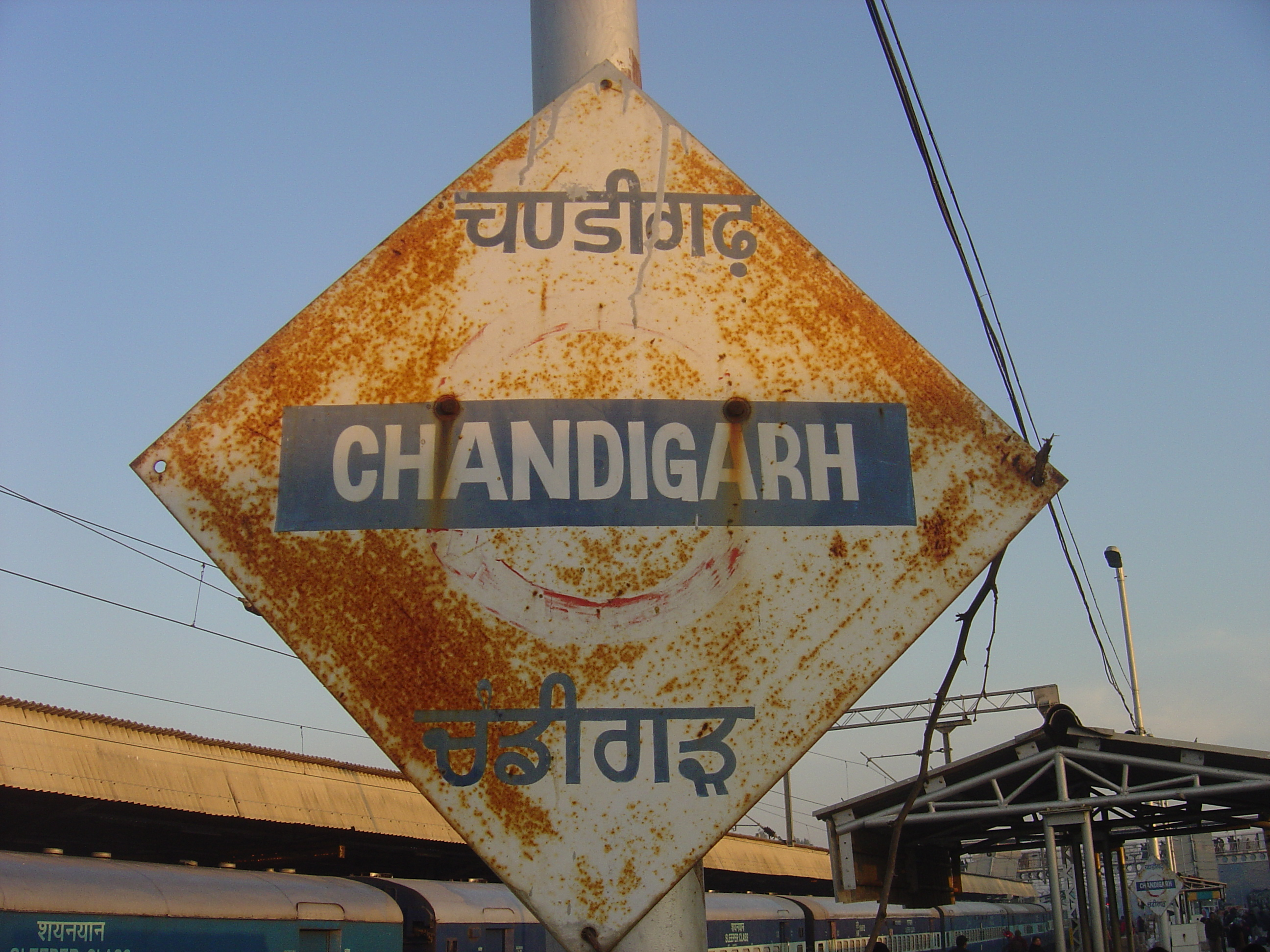 Chandigarh railway station - Platformboard